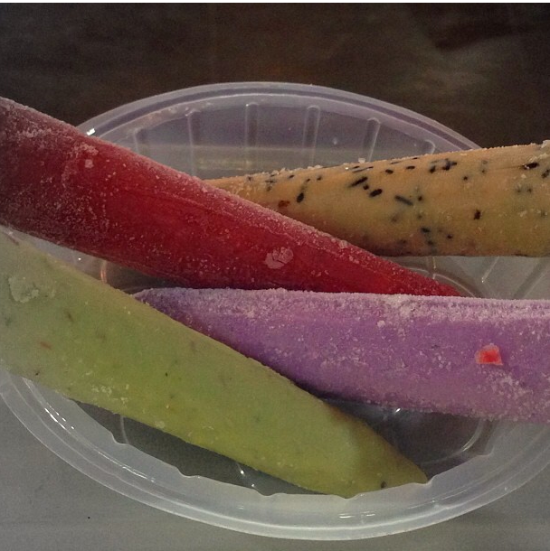 Take that chocolate!